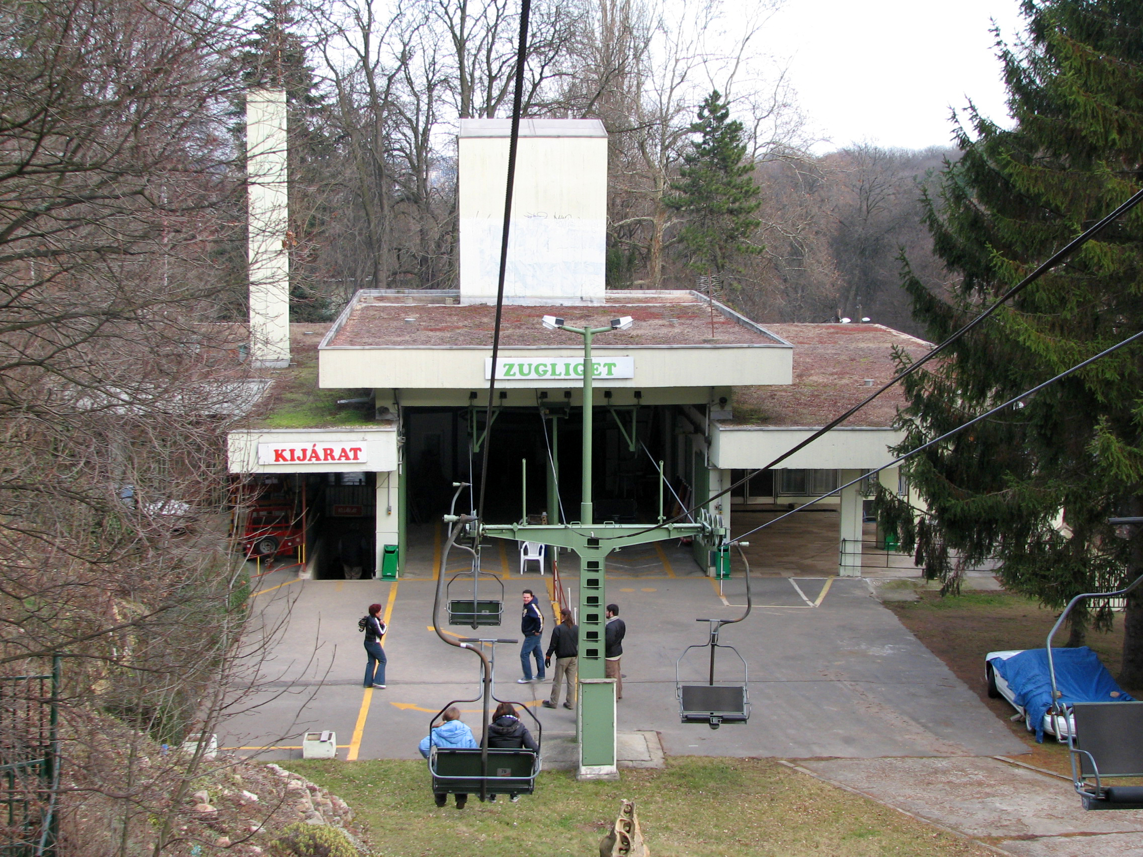 Zugliget station of chairlift (Libegő) in Budapest